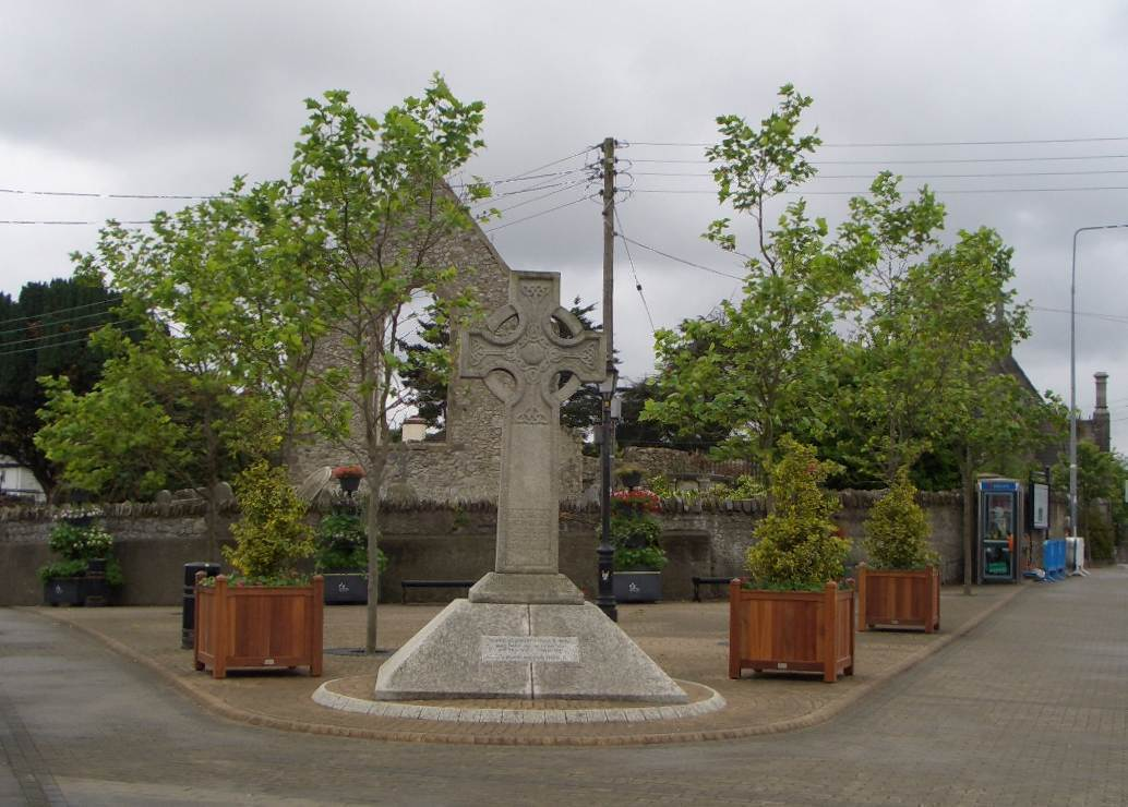 Raheny, Dublin, Ireland - village plaza, by Dublin Corporation and the Raheny Business Association